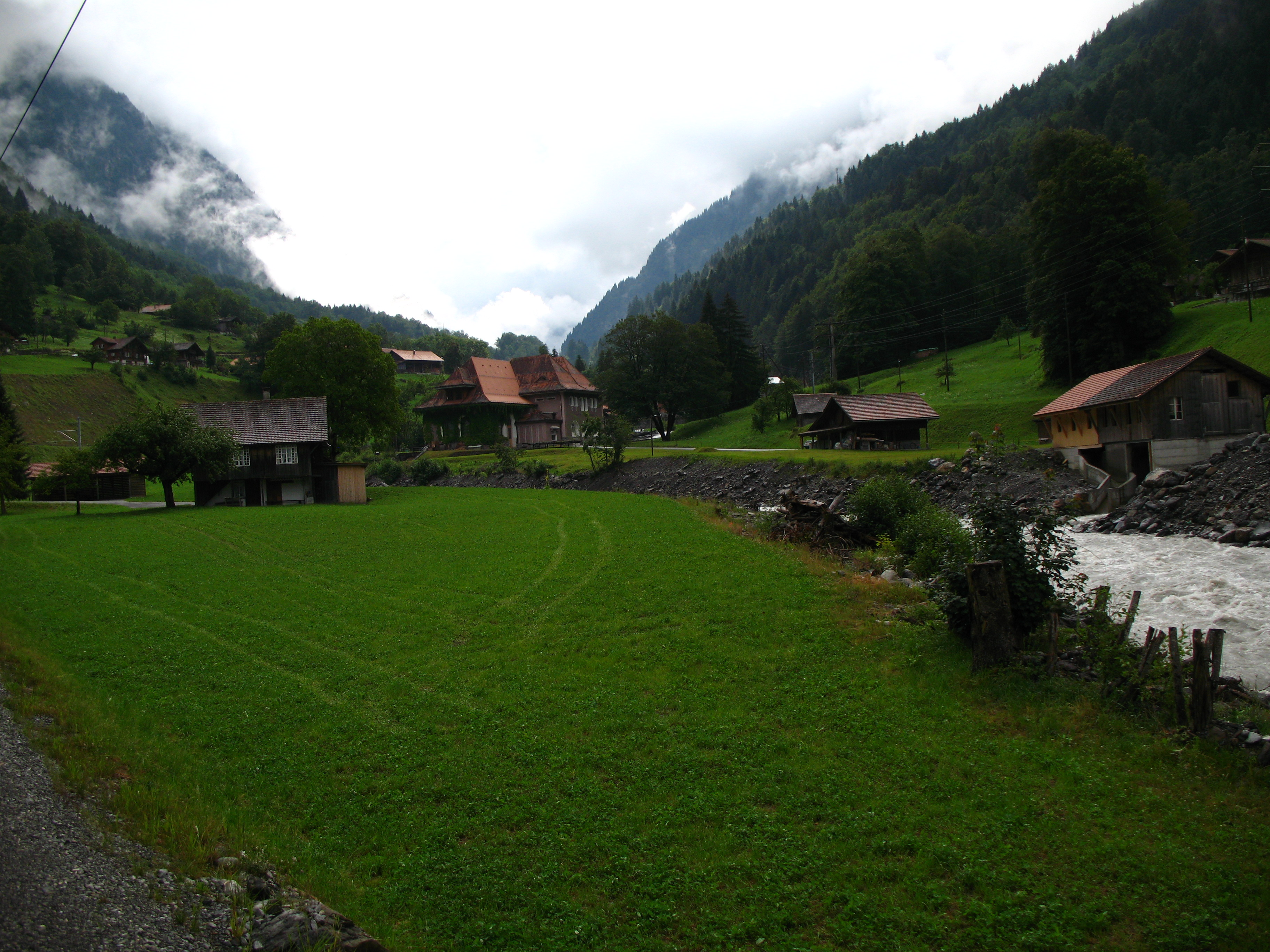 Black Lütschine, Lütschine Valley, Switzerland - OpenStreetMap (Info)